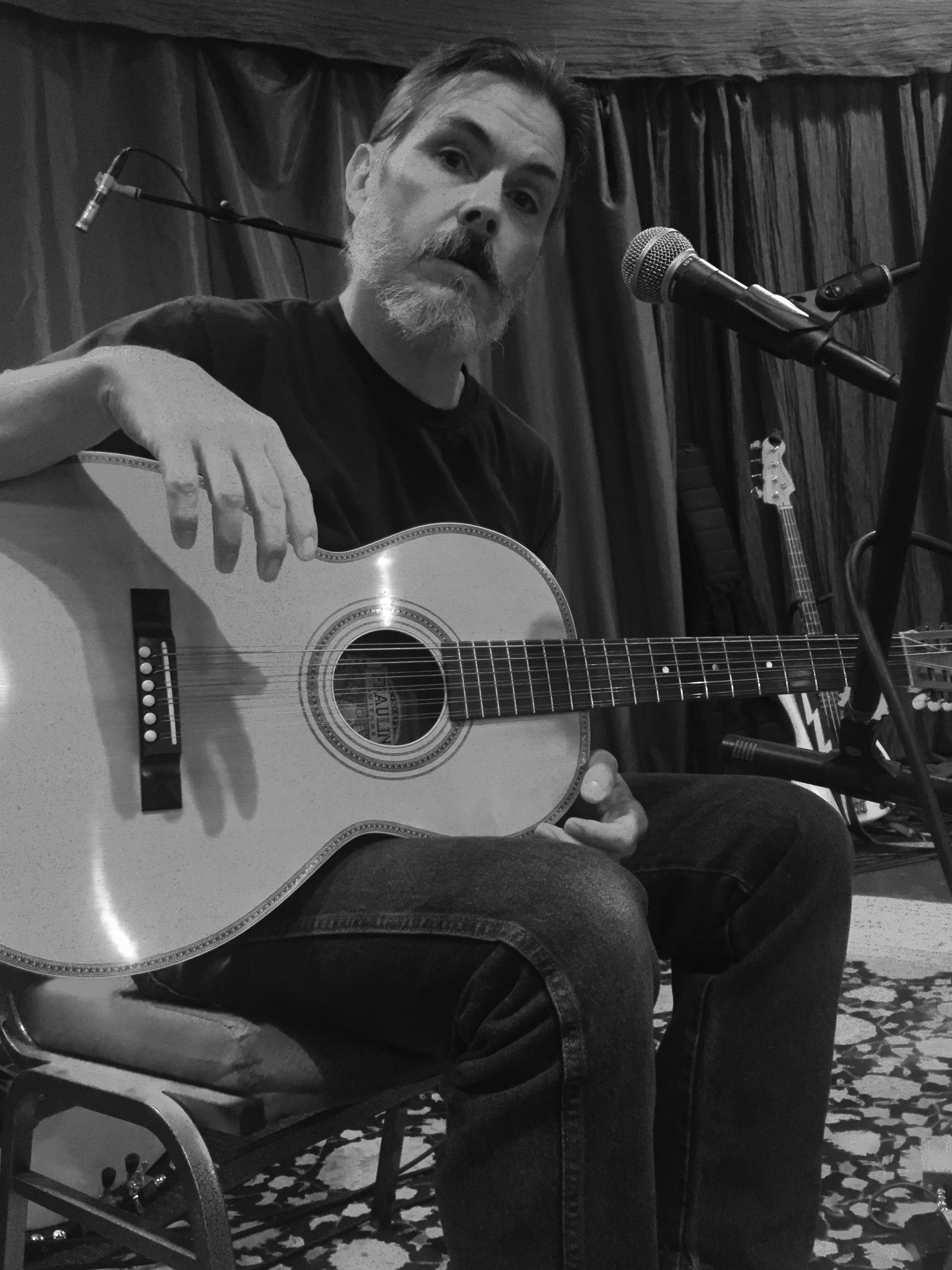 Sound check before gig.